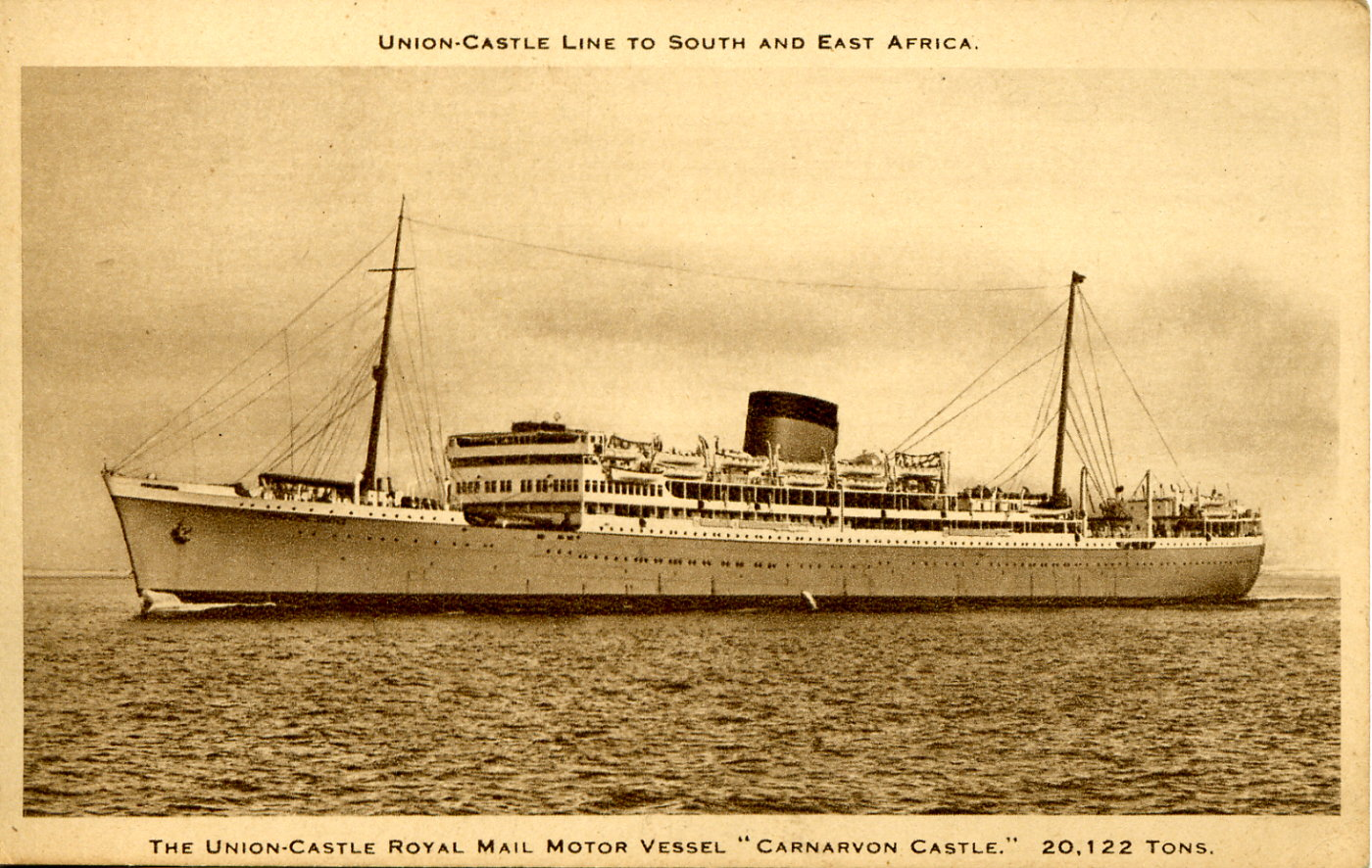 Union-Castle liner MV Carnarvon Castle, as refitted in 1938 with one funnel